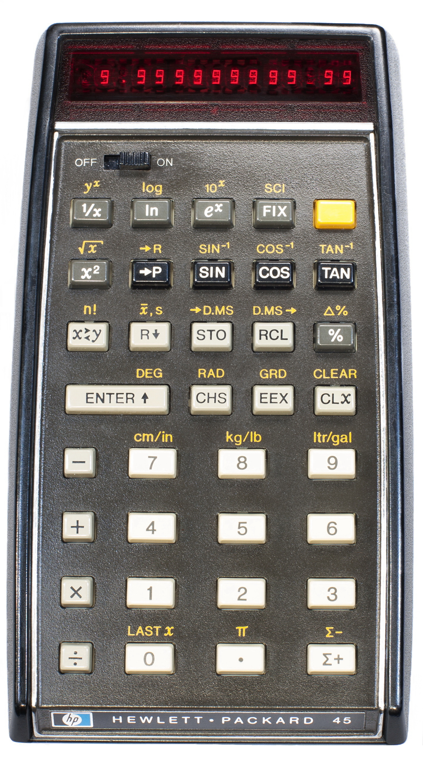 The HP 45 was an improved version of the HP 35. The HP 45 calculator was introduced in 1973 and was the first to have a Shift Key. It was also the first pocket calculator to have nine storage registers.